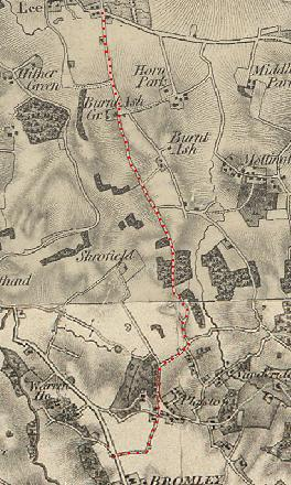 Section of OS map published in 1841, showing Burnt Ash and the surrounding area.